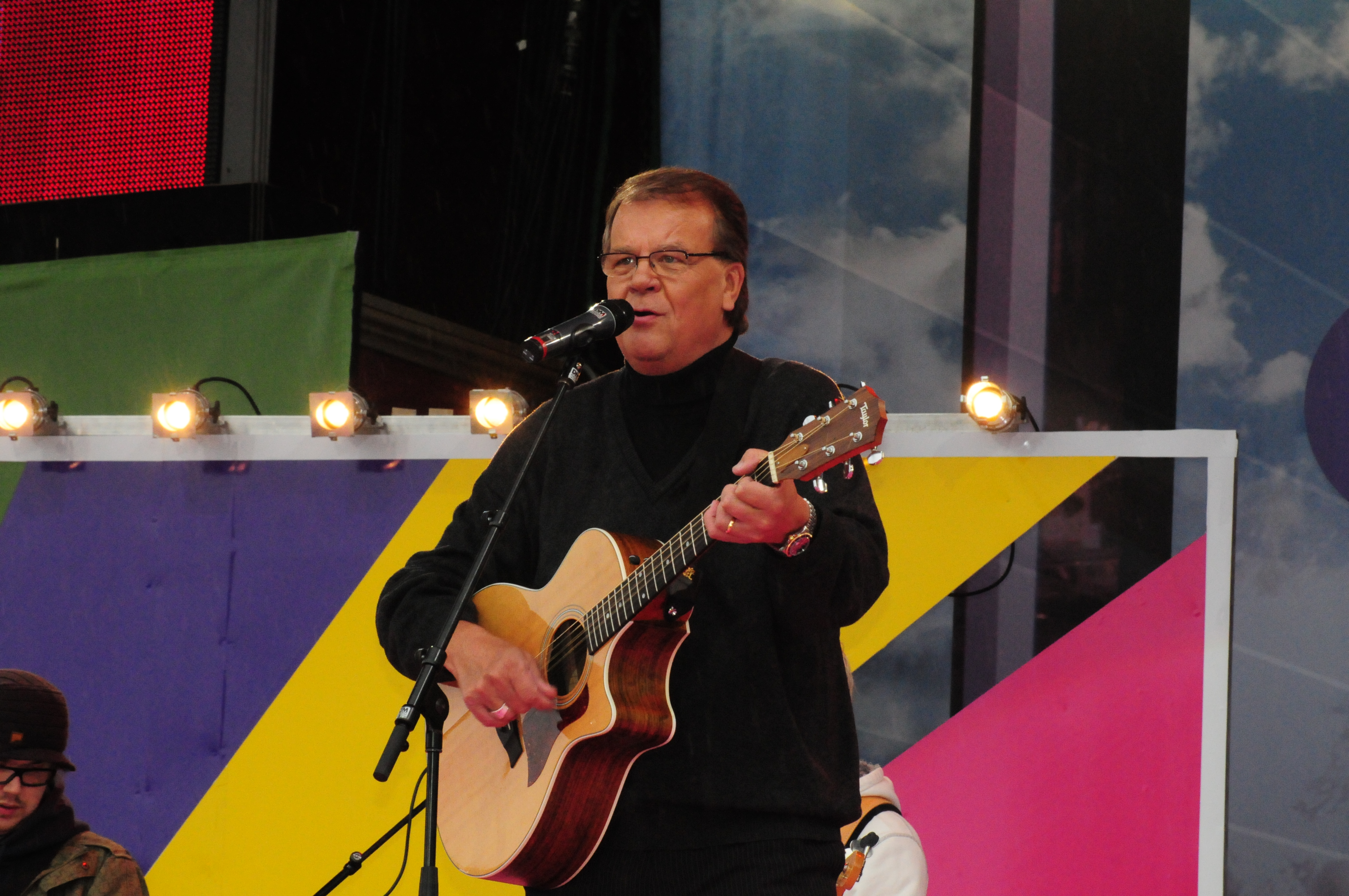 Lasse Berghagen at Sommarkrysset